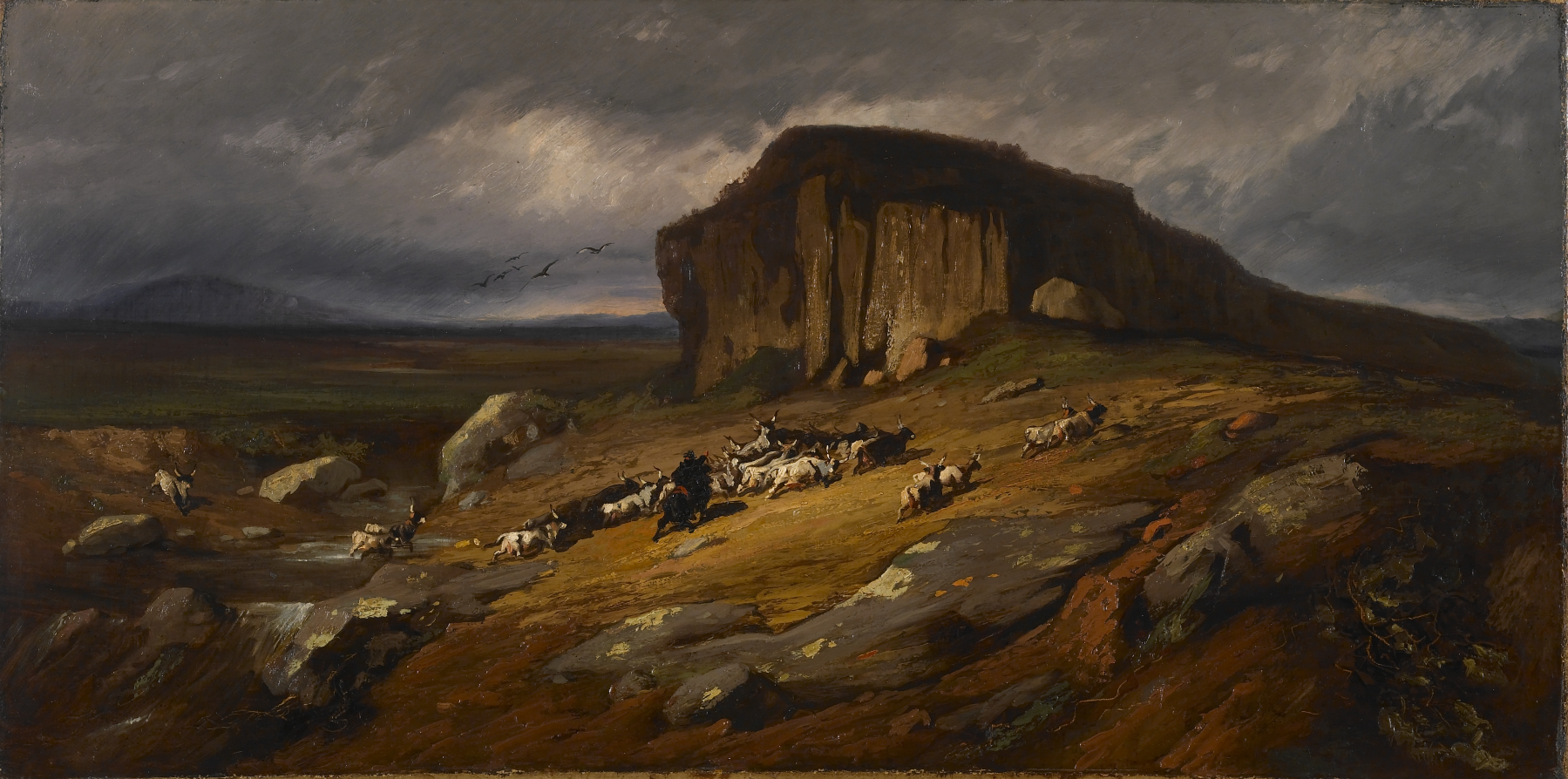 Long-horned buffalo or oxen are being herded across a desolate stretch of the Roman Campagna. In the center of the scene juts a high outcrop of rock. Overhead, reeling in the dark sky, are some vultures. The artist has applied the pigments in high impasto, utilizing a palette knife. The surface is further enriched with squiggly indentations made with the end of a brush-handle. Giovanni Costa, an Italian artist noted for his views of the Campagna, listed in "Quel che Vidi e Quel che Intesi," Trèves, 1927, p. 122, a number of colleagues also drawn to the region including Böcklin, David, Plock, George Mason, Zäner, Lenbach, Wilde, and Charles Coleman as well as Benouville. This picture is attributed to Benouville on the basis of similarities it exhibits in technique and format to a pair of landscapes belonging to the Heim Gallery, London (1978). The London pictures also show views of the Campagna, one with an aqueduct and the other with a herd of buffalo, and are inscribed with the artist's monogram "J A B" (conjoined) and are identified: "Rome 68" (in red).